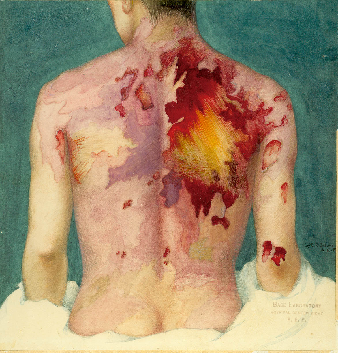 Extensive mustard gas burns of first degree over upper chest and entire back. Private Jacob Leifer, 16th Infantry. Art by Sgt. E.R. Brainard. Base laboratory, Hospital center Vichy